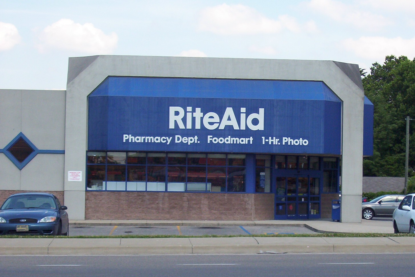 Self-made photo of the Rite Aid location in Scott Depot, West Virginia. This image was taken from across WV Rt 34 on June 13, 2006.